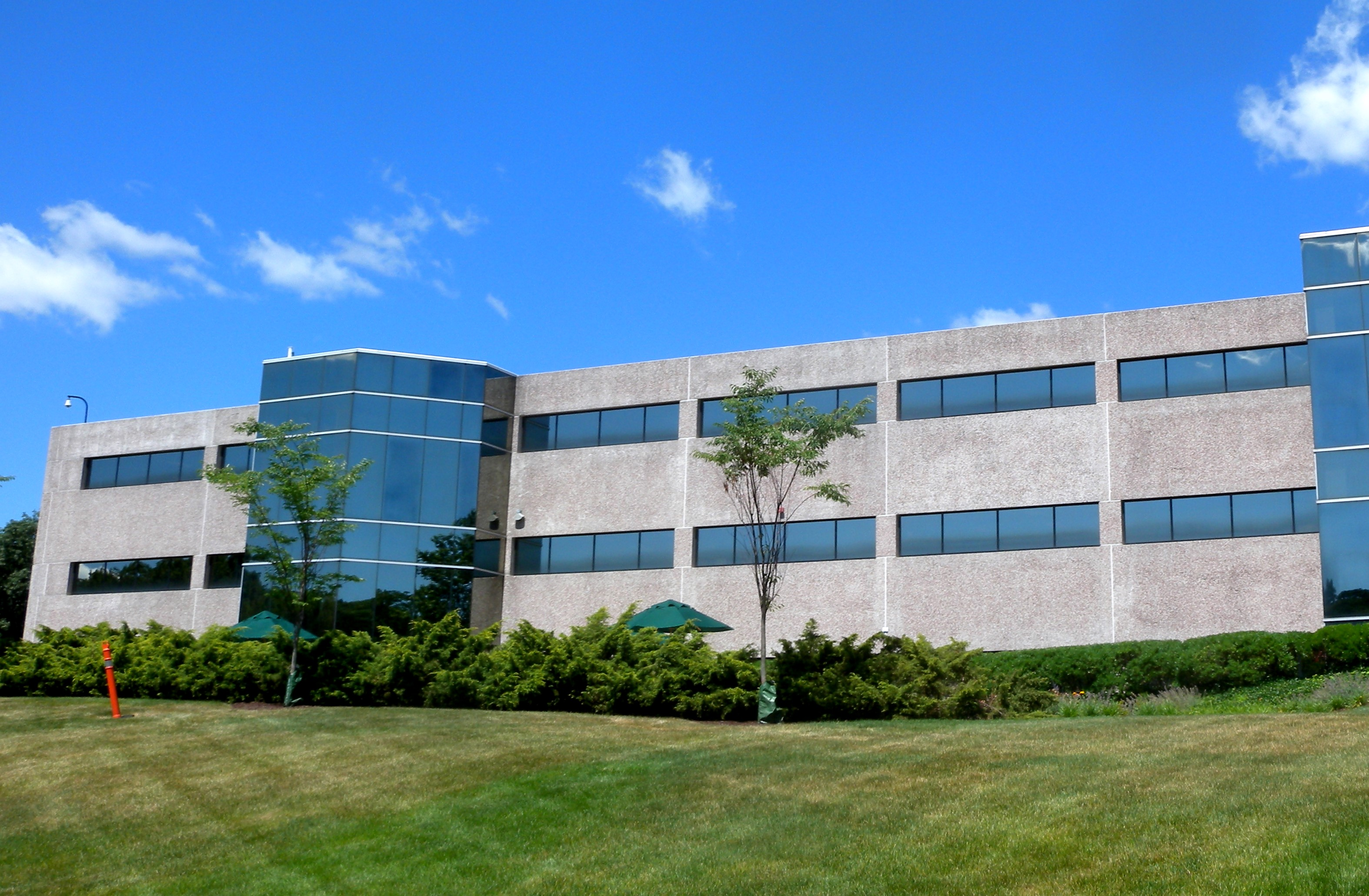 Unilever building, looking west from near Sylvan Avenue, Englewood Cliffs.